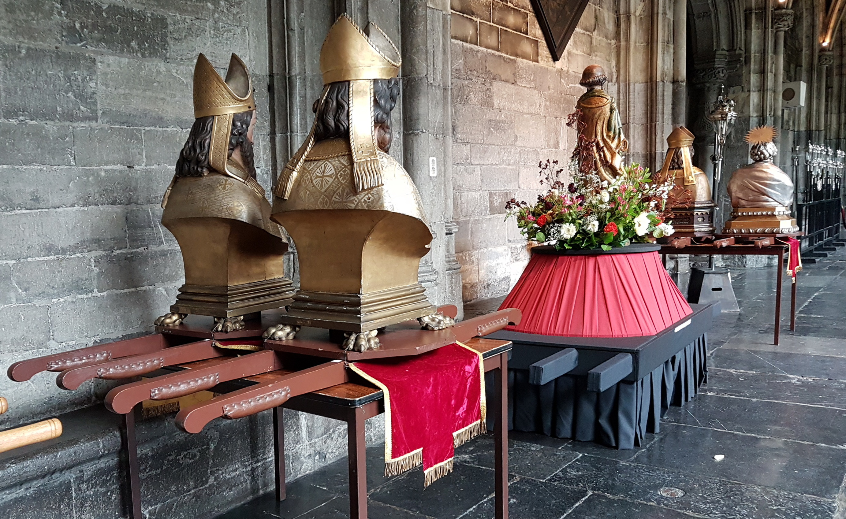 Display of reliquaries in the cloisters of the Basilica of Our Lady in Maastricht, Netherlands. The objects from the church's treasury are shown here in preparation of the veneration of the relics in the church on Saturday 2 June. This is part of the Heiligdomsvaart ("relics pilgrimage") celebrations, a religious and historic event that takes place once in seven years and dates back to the Middle Ages. The reliquary busts shown here contain relics of the holy bishops of Maastricht and other saints.